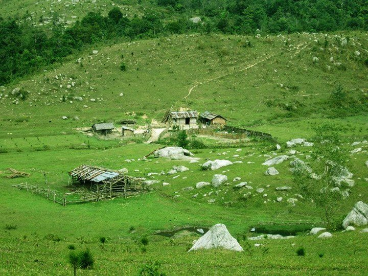 ĐôngTriều